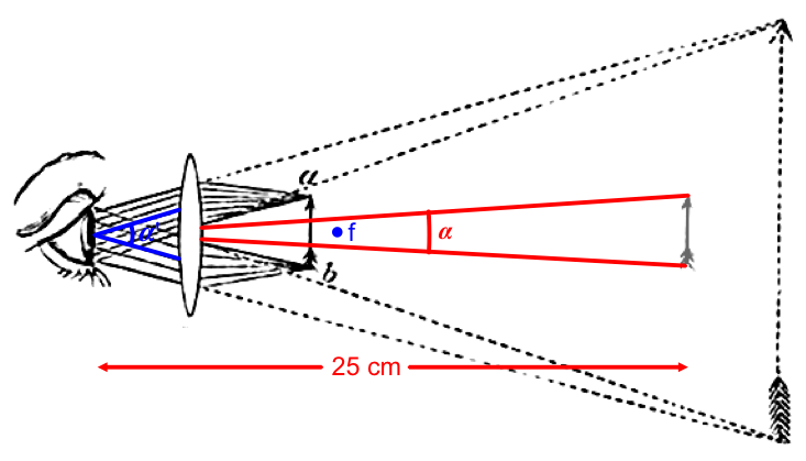 The magnification power of a loupe is given by M = α ′ α = 25 c m f {\displaystyle M={\frac {\alpha '}{\alpha ={\frac {25\ \mathrm {cm} }{f } , where 25 centimeter is the near limit of the normal eye. When the virtual image is not at infinity but at the near point, the angular magnification is M + 1. {\displaystyle M+1.}